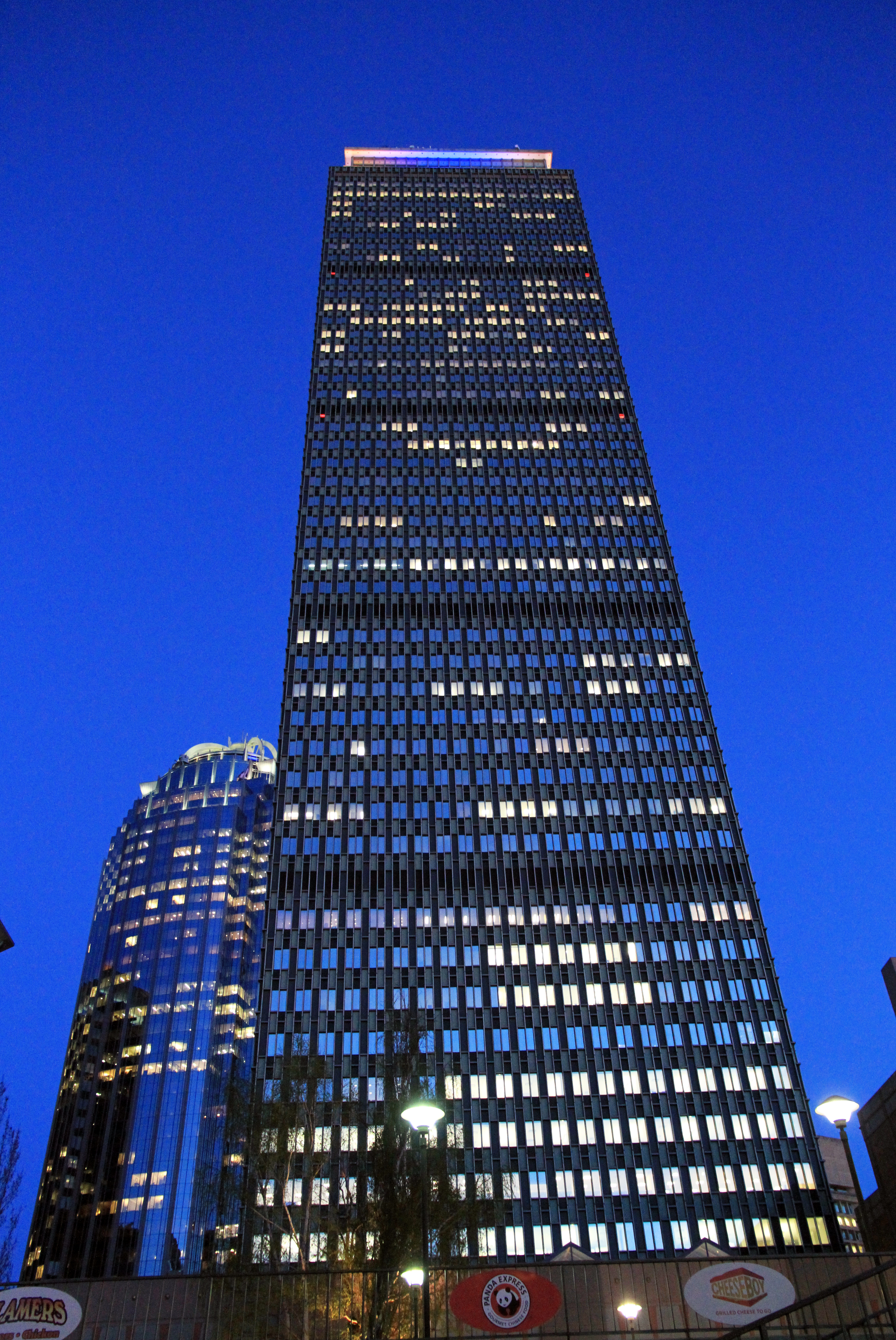 Prudential Center